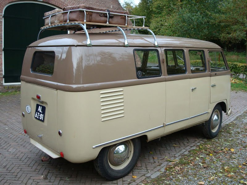 1952 VW Barndoor brown back2